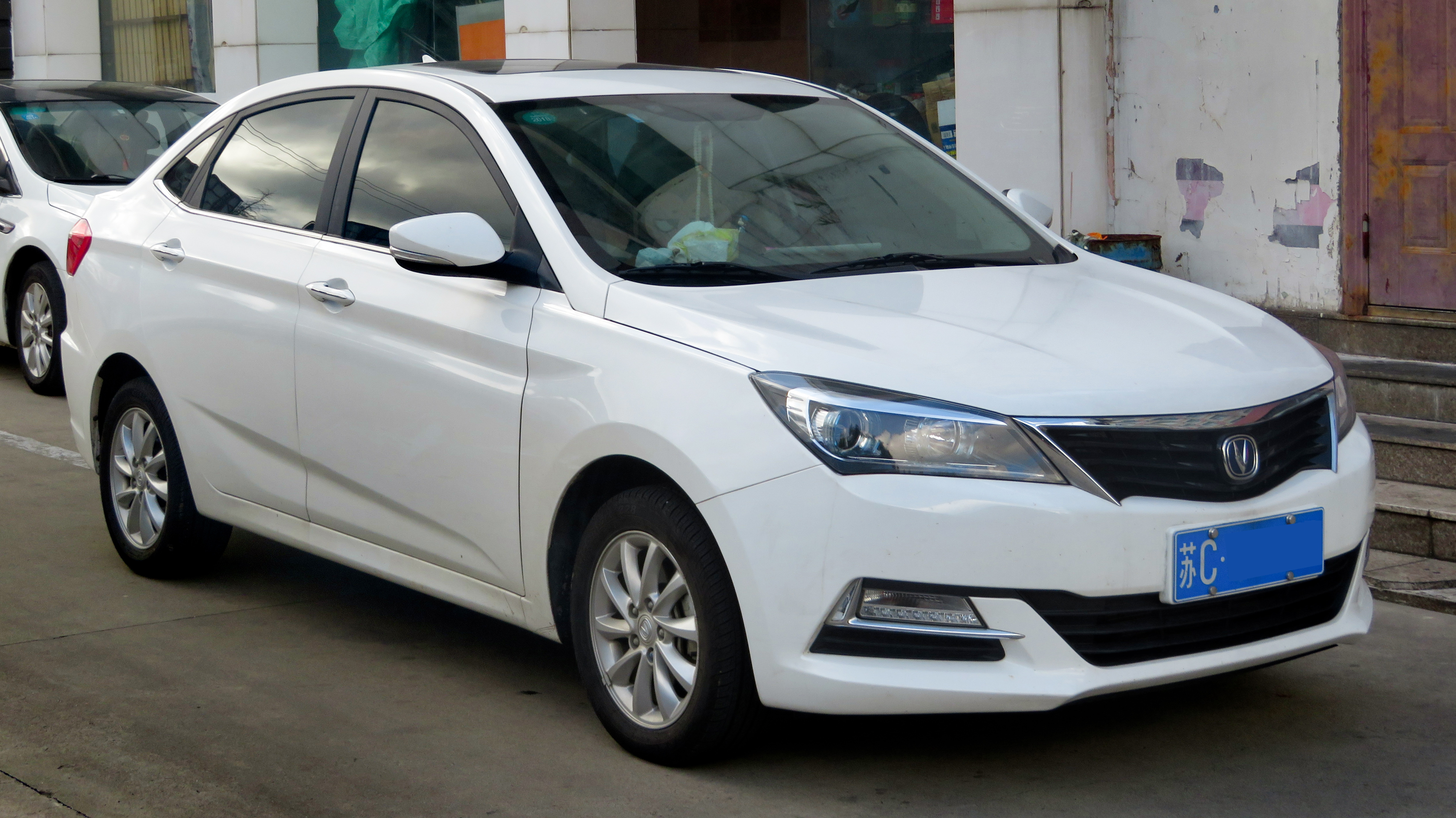 A 2016 Chang'an Alsvin V7 photographed in Shanghai, China